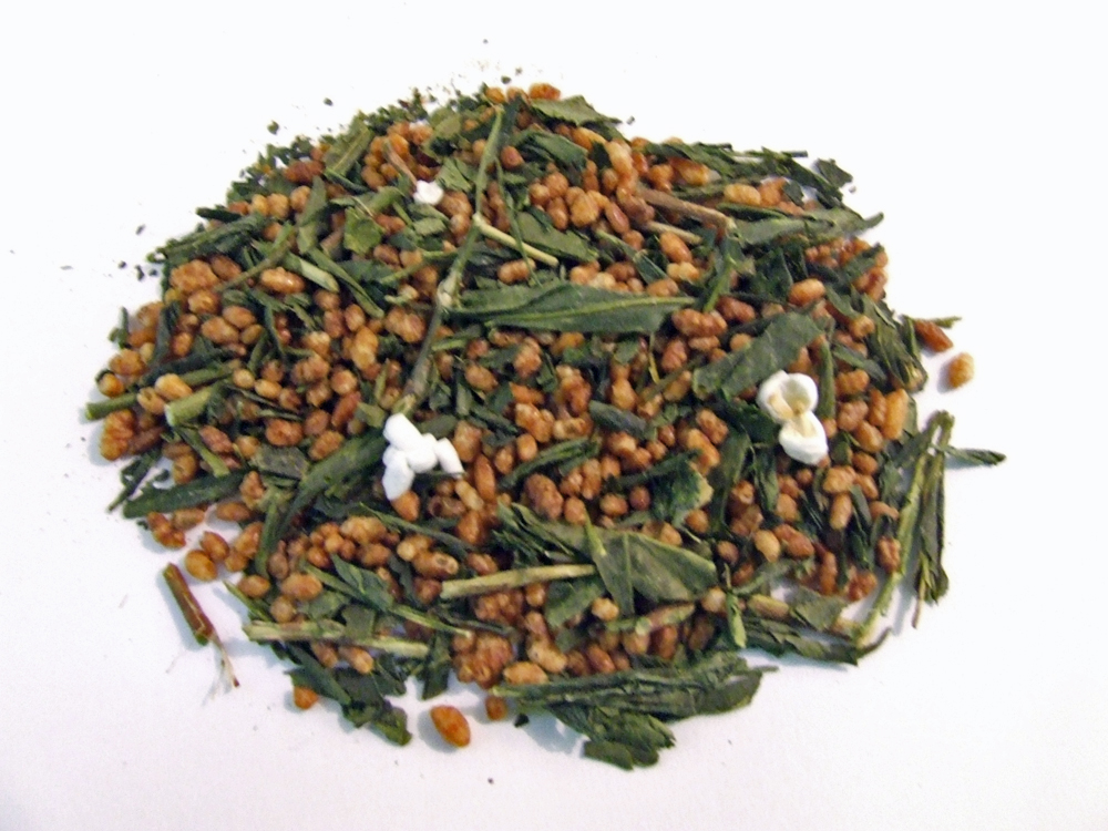 Loose Genmaicha tea.